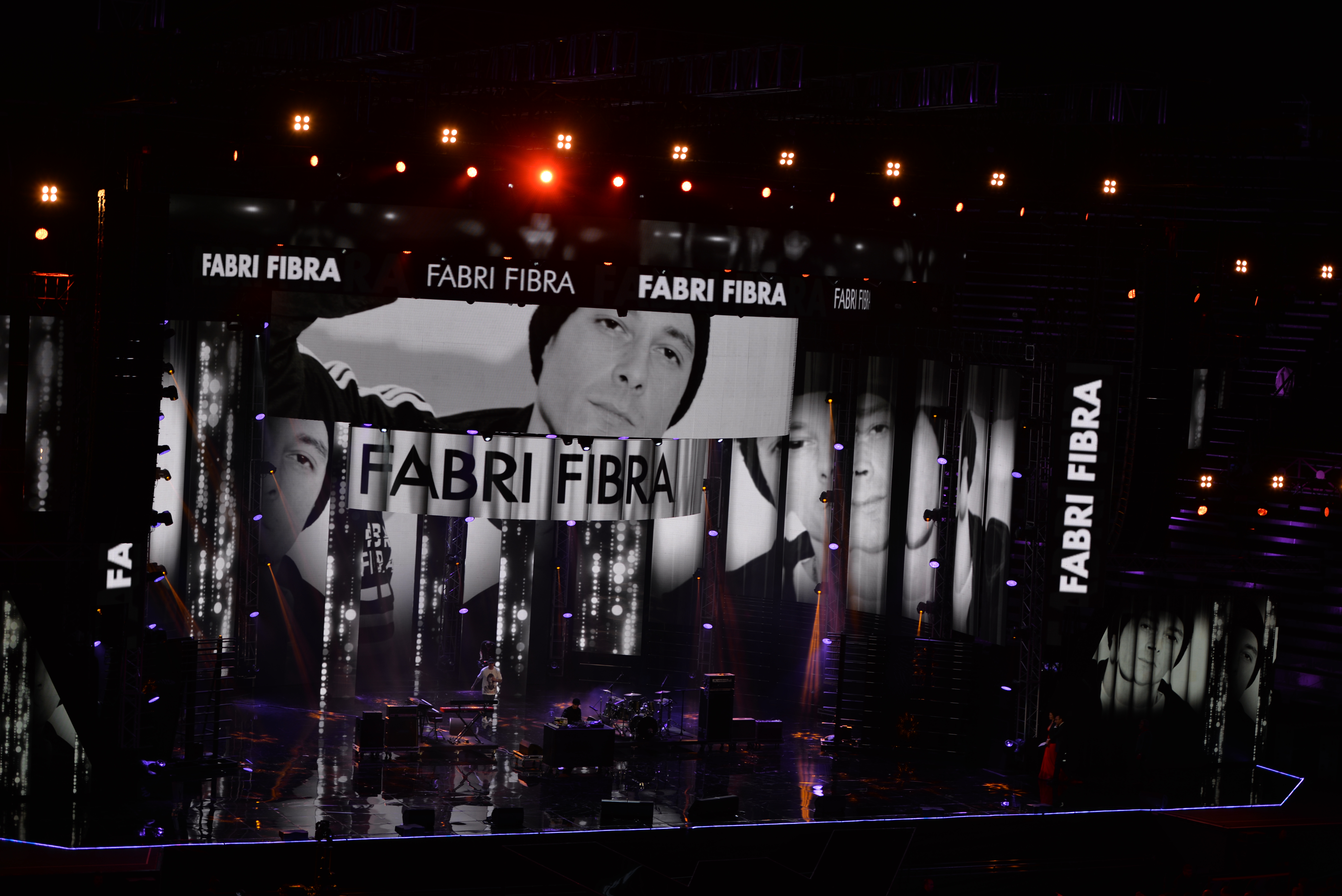 Fabri Fibra during the Wind Music Awards 2016 ceremony at Verona Arena